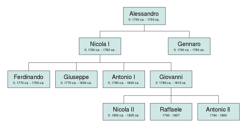 Genealogy of Gagliano violinmakers family.